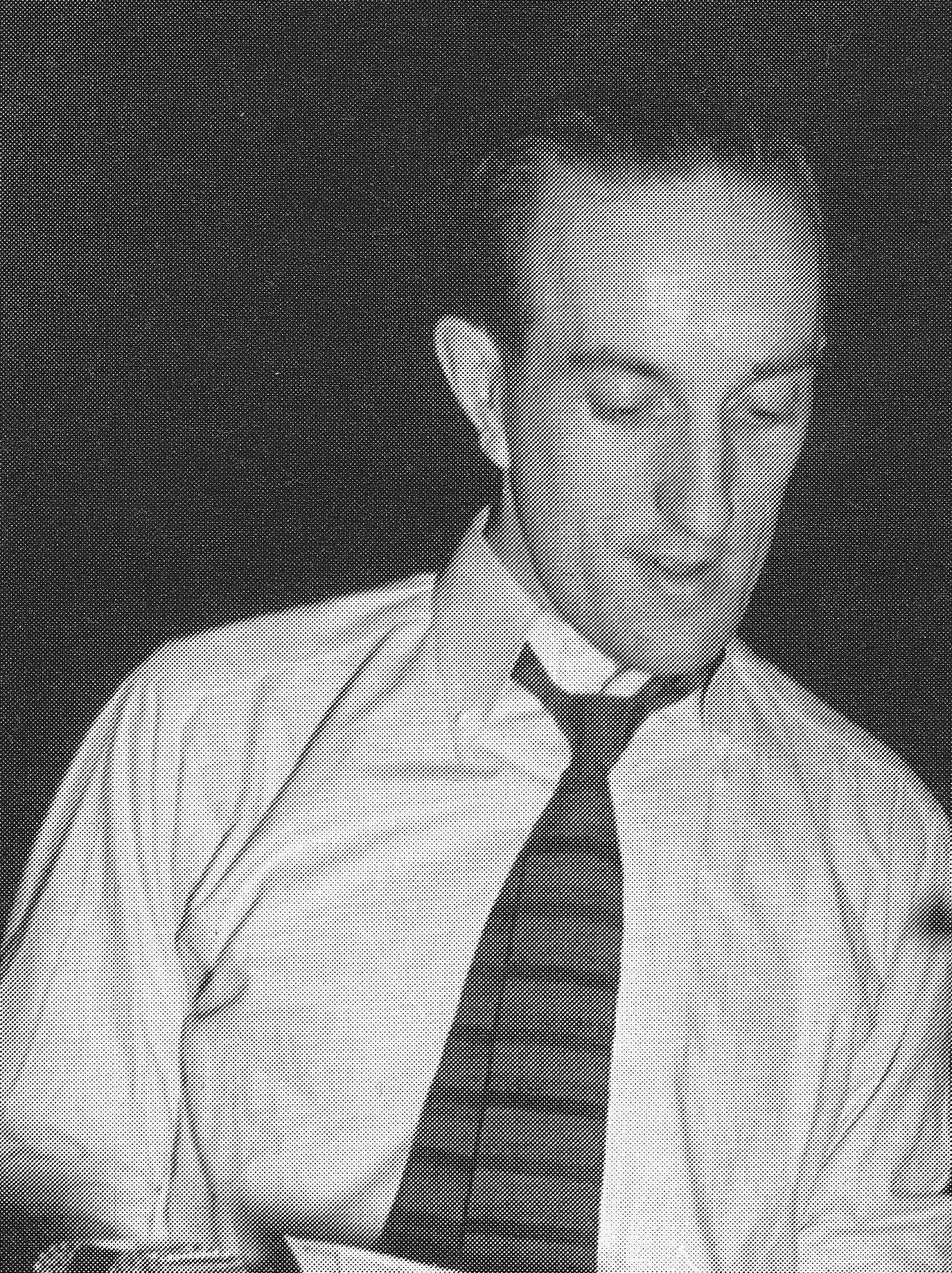 Erik Lindström in Stockholm 1948